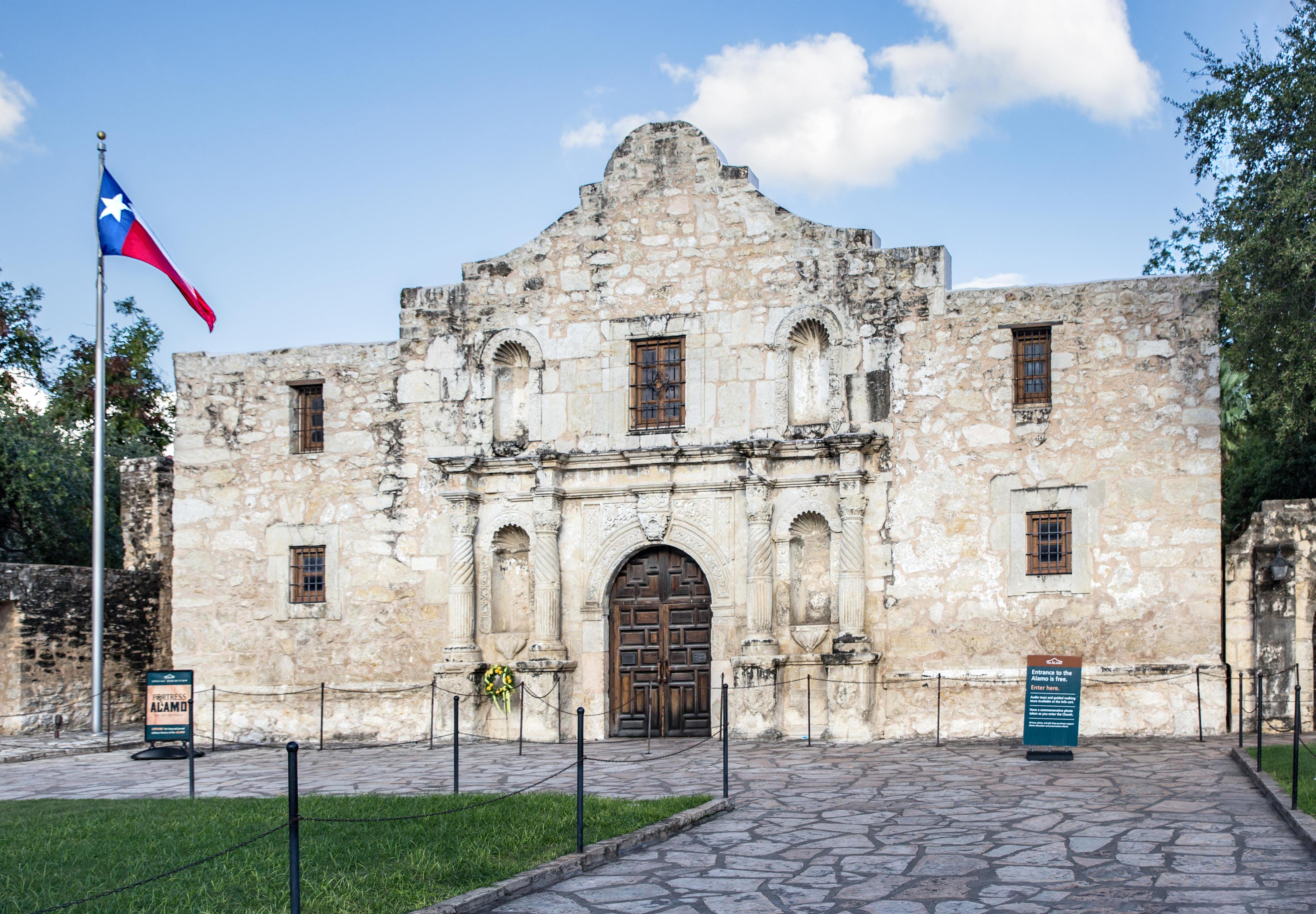 The Alamo in San Antonio, Texas